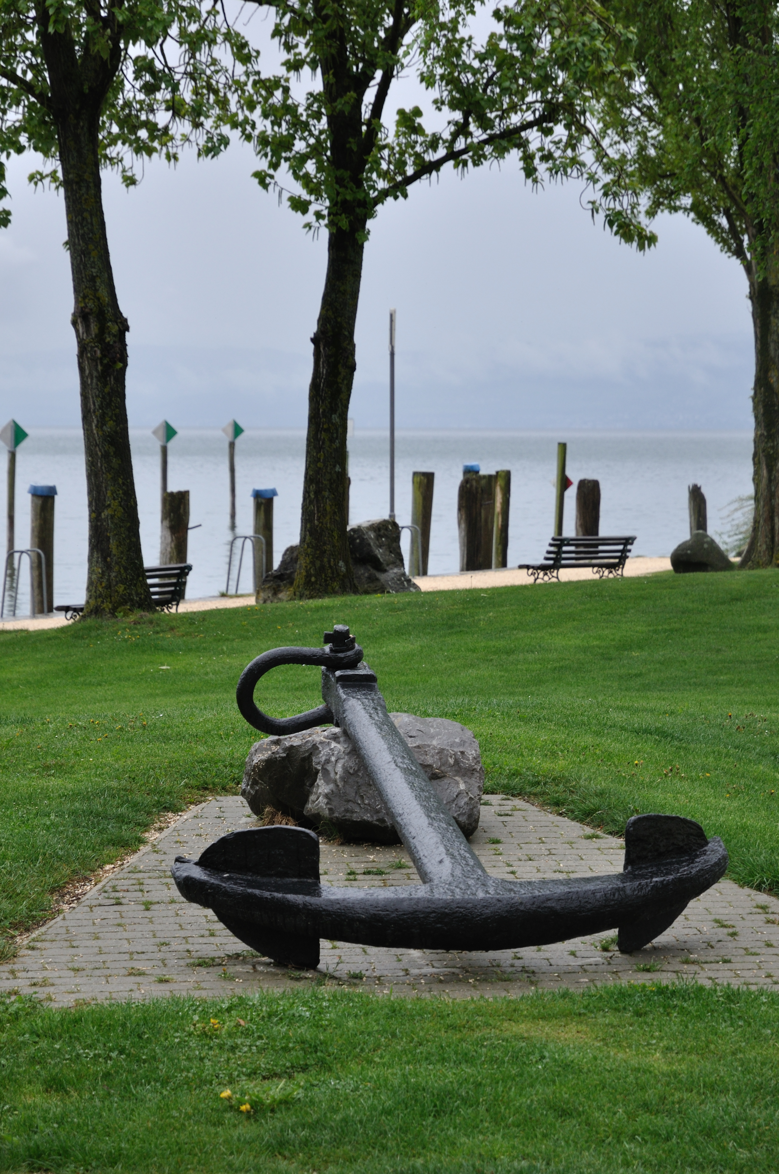 Anchor, pier of Immenstaad, Lake Constance, Bodenseekreis, Baden-Württemberg, Deutschland